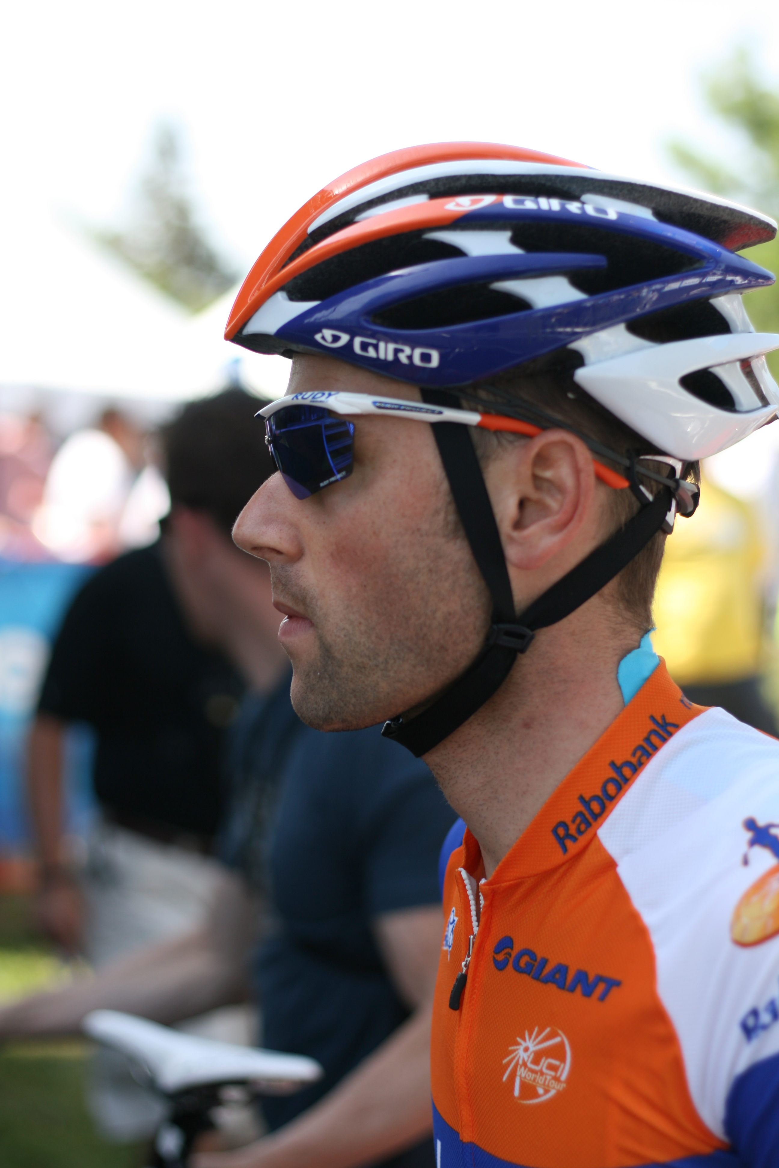 2012 Amgen Tour of California Stage 3 start, Berryessa Road, San Jose, CA